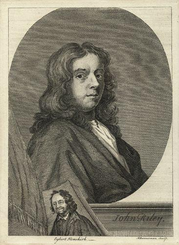 John Riley (1646-1691). Thought to have come from a well-off family he established himself as the best portrait paintewr in London. He was appointed a court painter by William and Mary although no portraits of them by Riley are known.[1] One of his apprentices was Jonathan Richardson who married Riley's niece and inherited a large number of old masters from Riley.